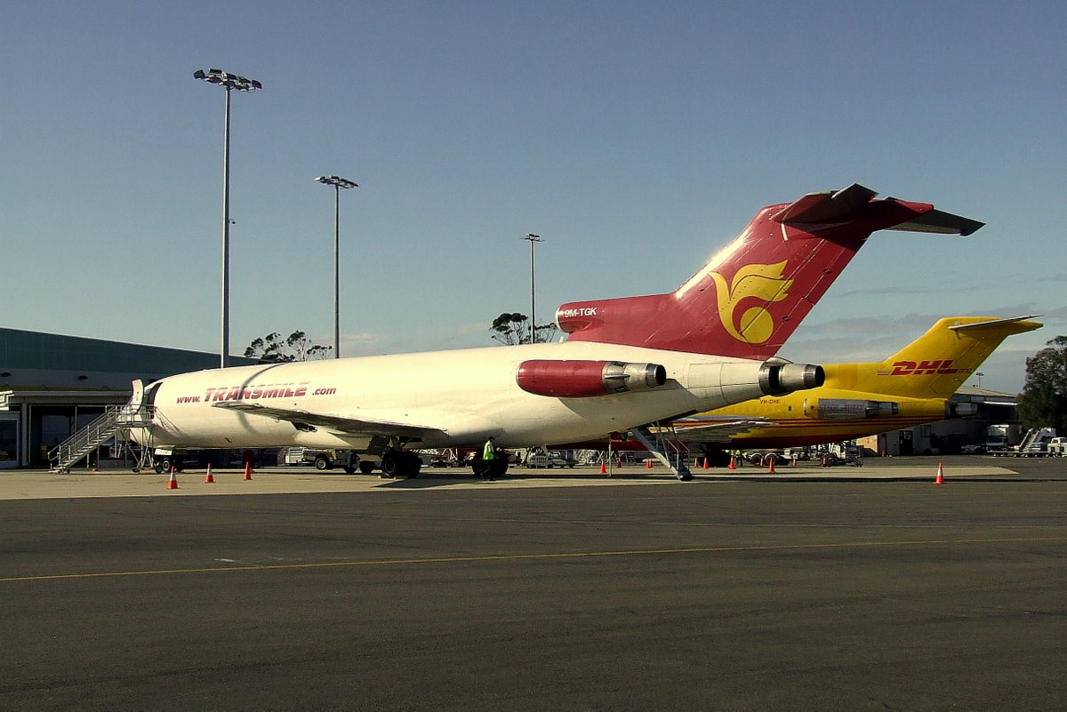 Boeing 727-200 freighters of Tasman Cargo Airlines (one leased from Transmile Air Services) parked in front of the DHL Express facility at Sydney Airport in Australia. Digital image of 9M-TGK and VH-DHE taken by YSSYguy on 17 June 2006 and uploaded for use in the Sydney Airport article. Image edited using Picasa software. YSSYguy (talk) 06:35, 1 August 2010 (UTC)